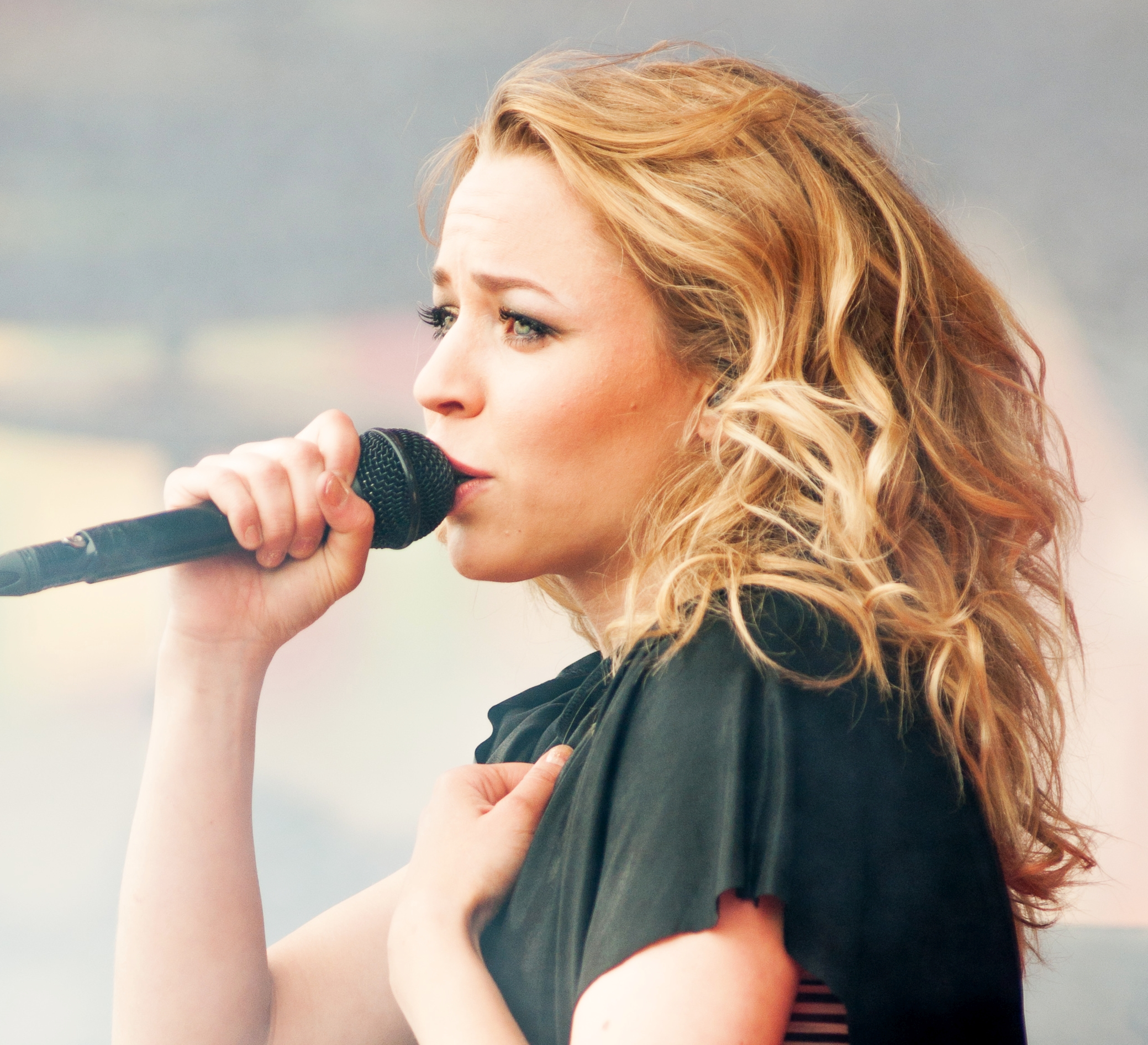 Finnish vocalist Paula Vesala of PMMP performing at the 2012 Ilosaarirock festival in Joensuu, Finland.